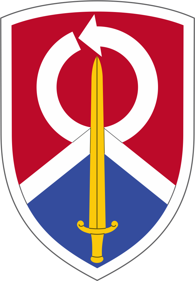 Each piece of the patch design has meaning. The chevron denotes the unit’s support role in warfare. The following colors emphasize the attributes of the command - red conveys courage, blue signifies loyalty, and white represents devotion, also indicating the national colors. The stylized arrow symbolizes the “Transportation Cycle of Logistics,” alluding to the command’s movement around the world and back to complete the mission. The sword points up to illustrate readiness to engage in the fight. Wichita Army Reserve sustainment command receives new shoulder patch